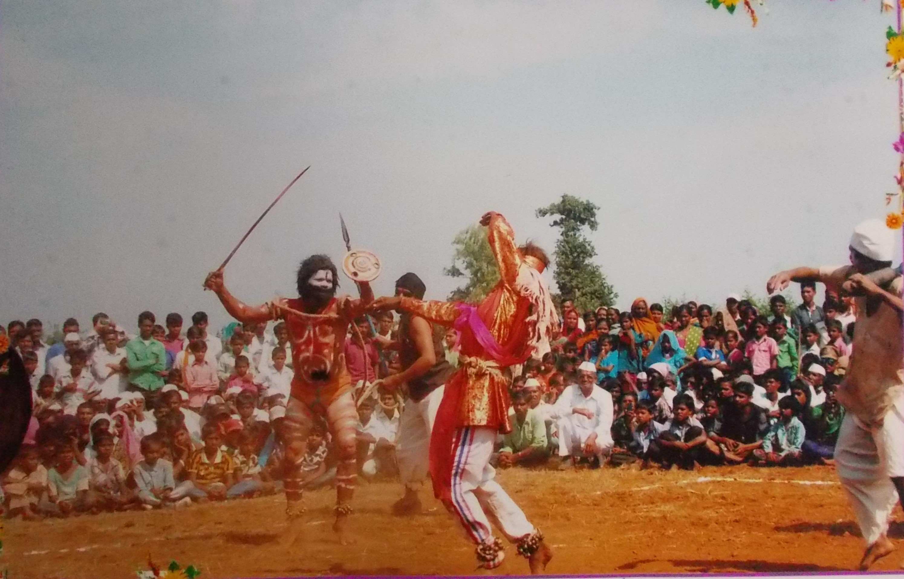 A moment from Kokna festival wherein Kokna men are dressed-up as Indian mythological characters